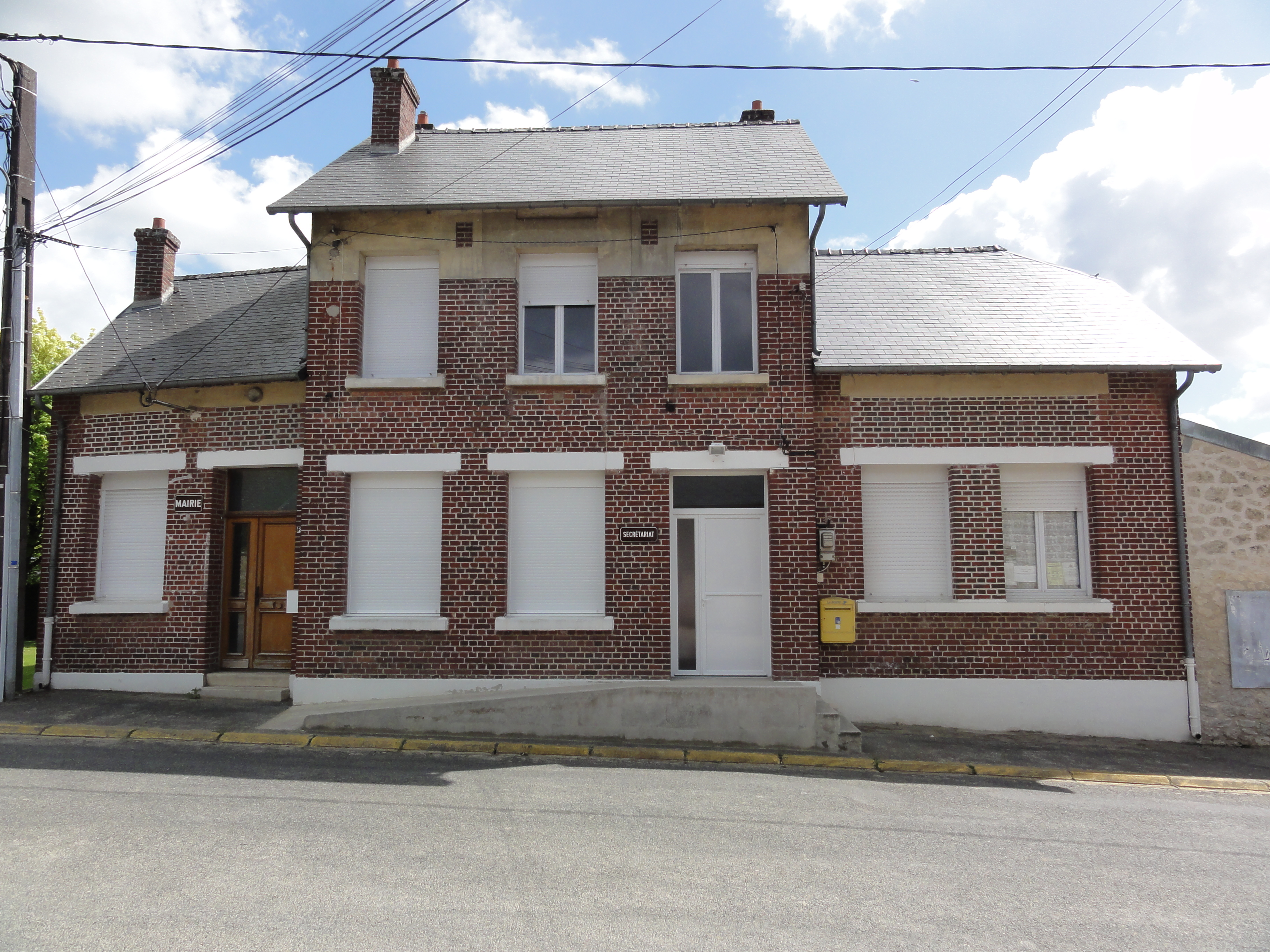 Wissignicourt (Aisne) mairie